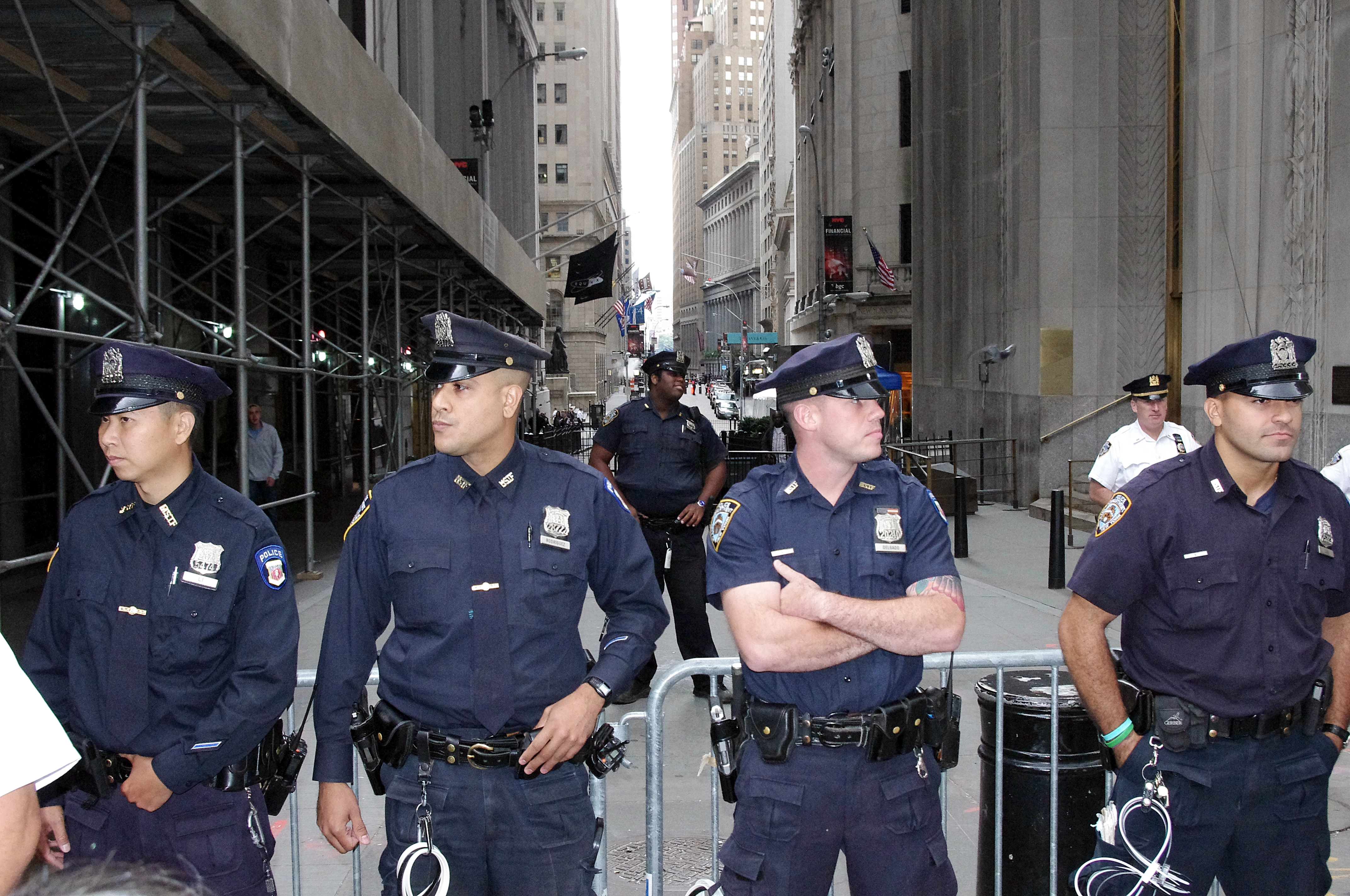 NYPD officers stand at the west end of Wall Street protecting a barrier that denied all access to the financial district, in anticipation of the Occupy Wall Street protest in New York.